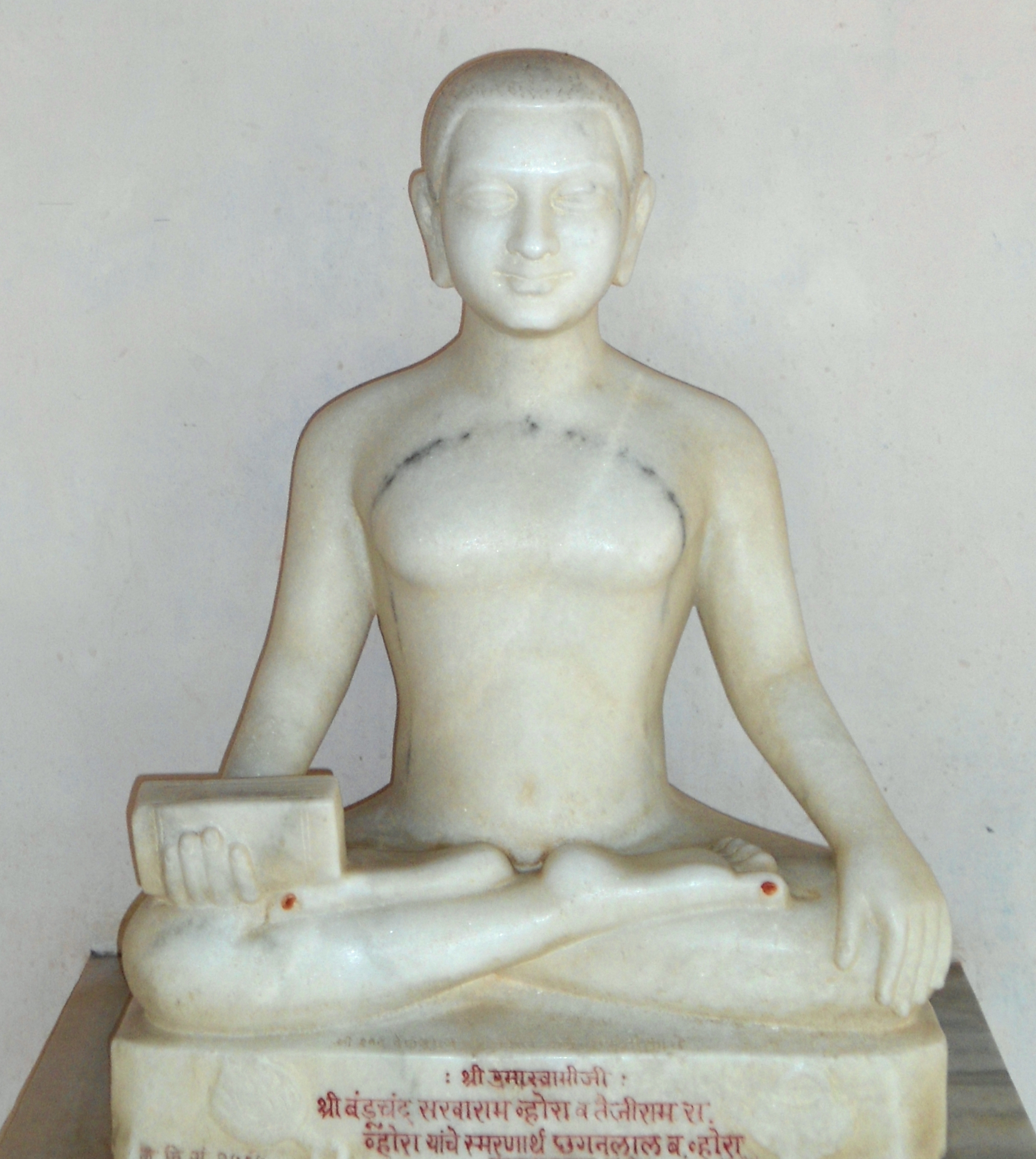 Image of Acharya Umaswami, first century Digambara monk, author of the major Jain text, Tattvārthsūtra.